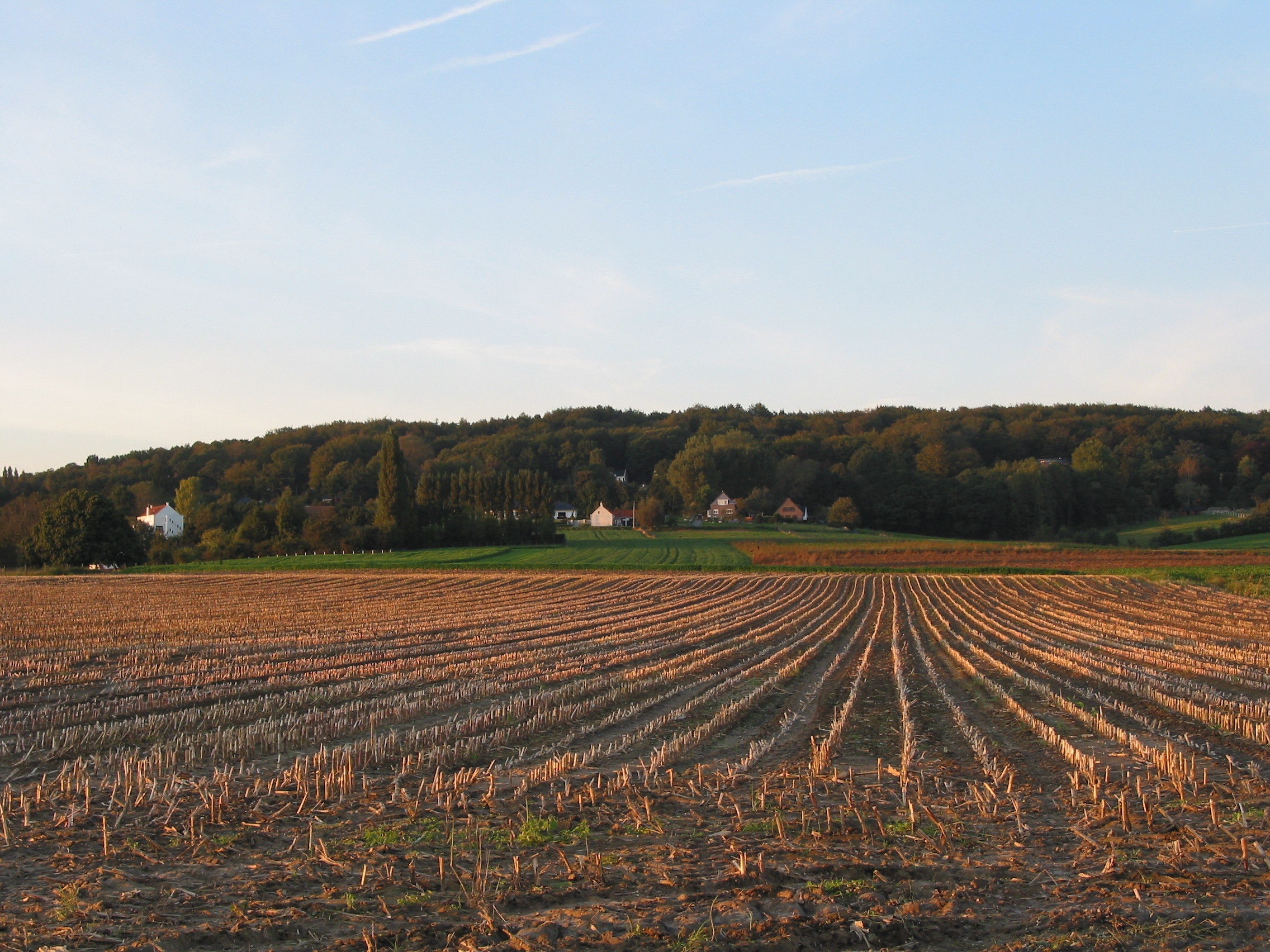 Mont-de-l'Enclus (Belgium), the "Mont de l'Enclus".